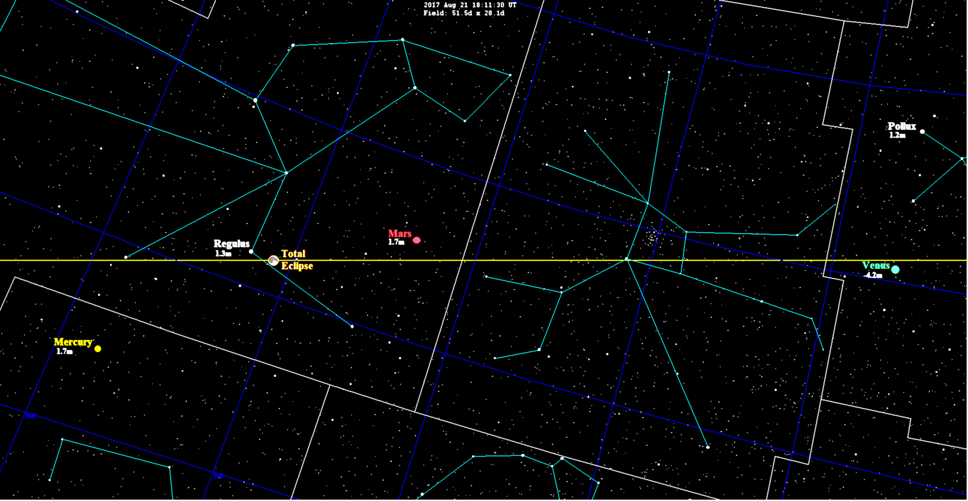 Solar eclipse of August 21, 2017 stars and planets, viewing location near border of Missouri and Kansas.